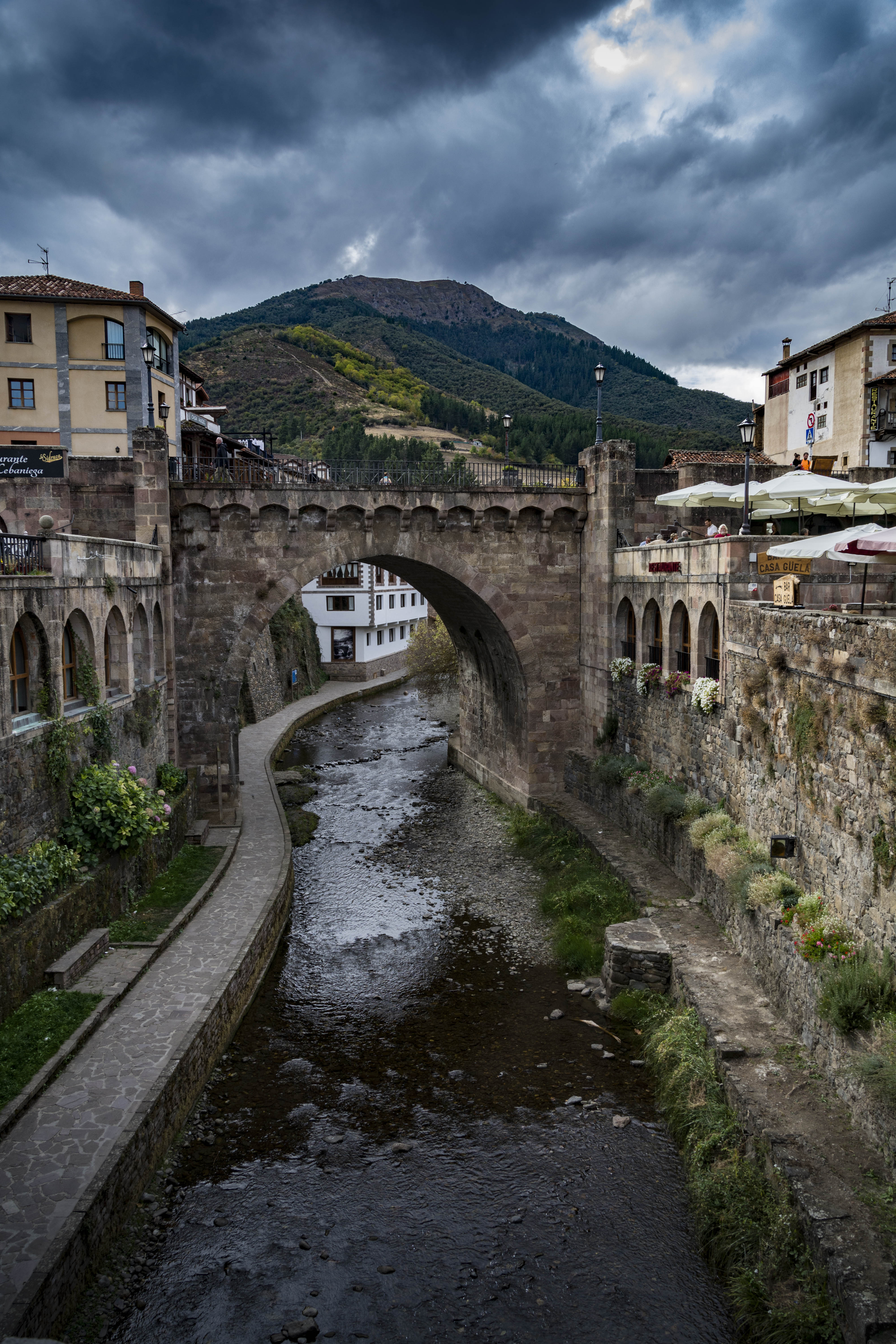 This is a photography of a Site of Community Importance in Spain with the ID: ES1300008. Natura2000 entry, EEA entry